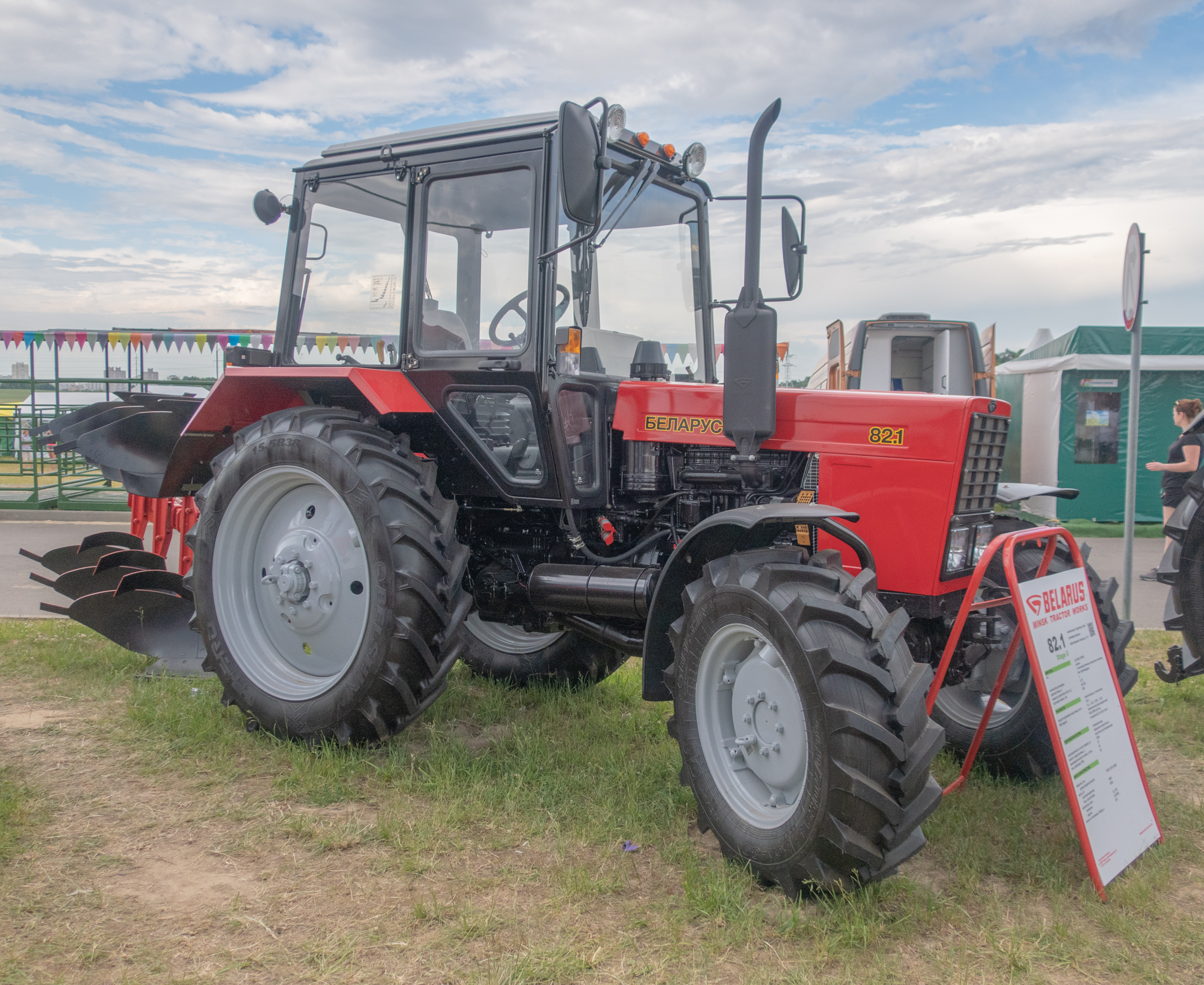 Belarus MTZ-82.1 tractor. Photo taken at Belagro-2019 exhibition (Minsk district, Belarus)